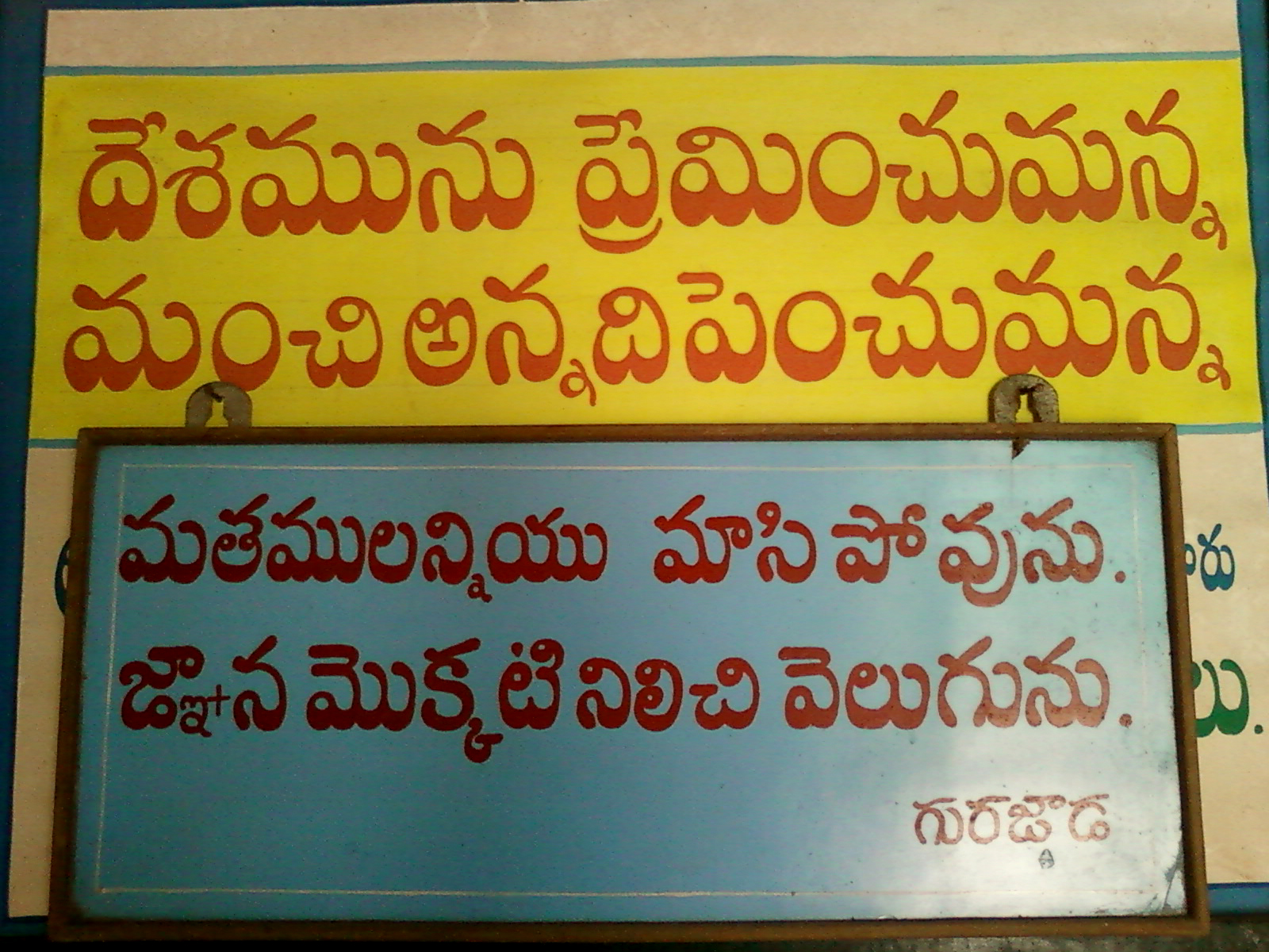 Poetic lines by Gurajada Apparao dispalyed at his house (presently used as a memorial library) in Vizianagaram, Andhra Pradesh